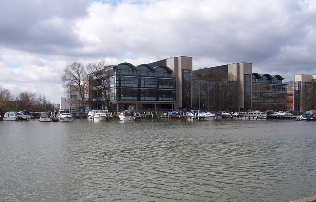 Brayford Pool -Lincoln With university in the background